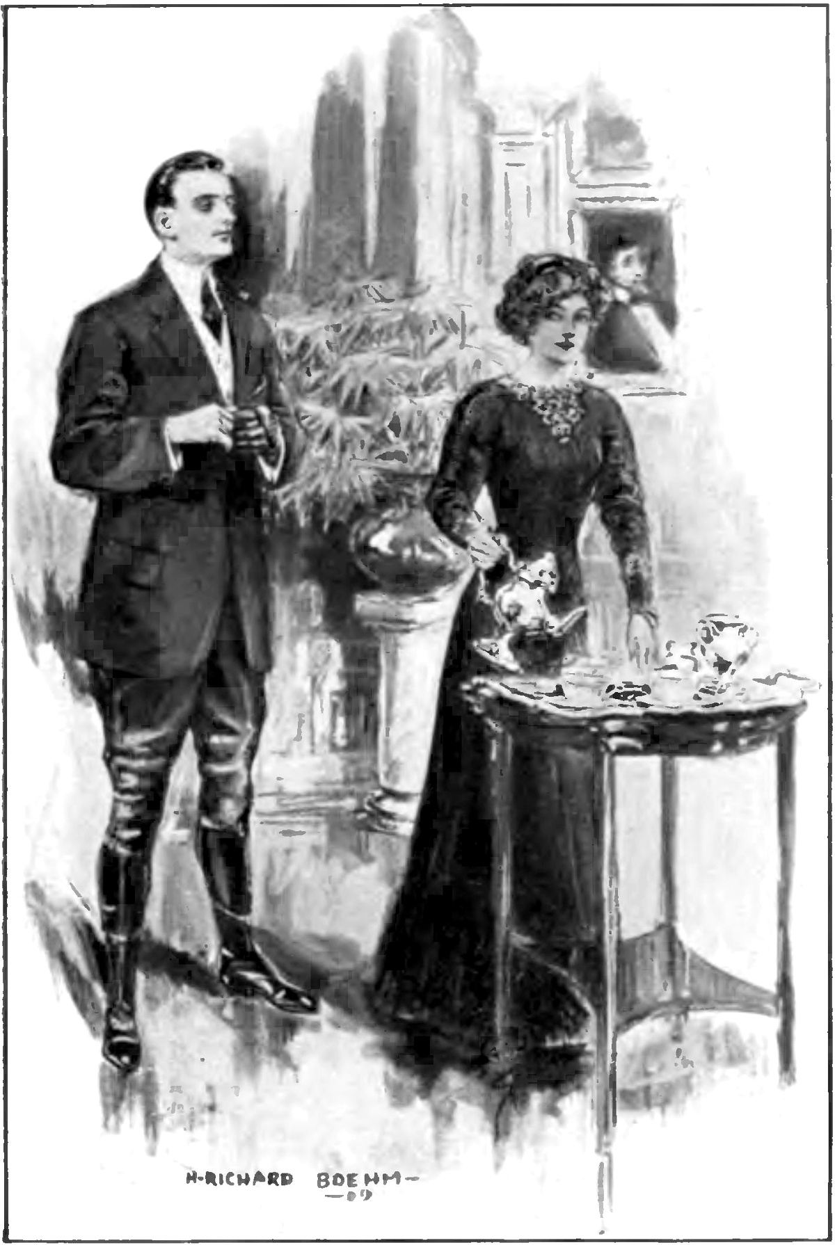 Illustrations from the book, Arsène Lupin, written by Maurice Lebanc, illustrated by H. Richard Boehm